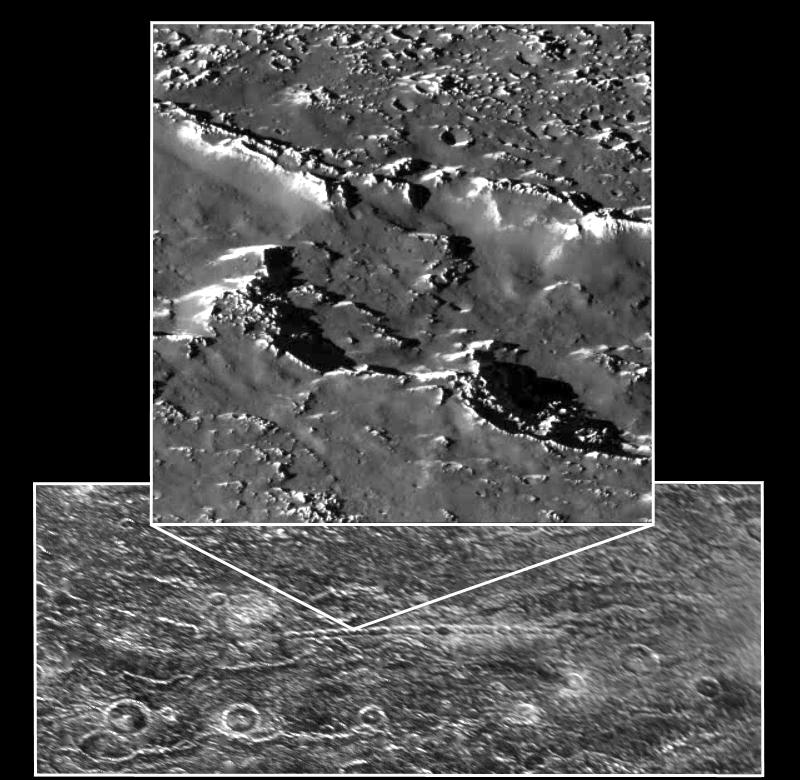 Callisto Gomul Catena by Galileo, from NASA Planetary Photojournal